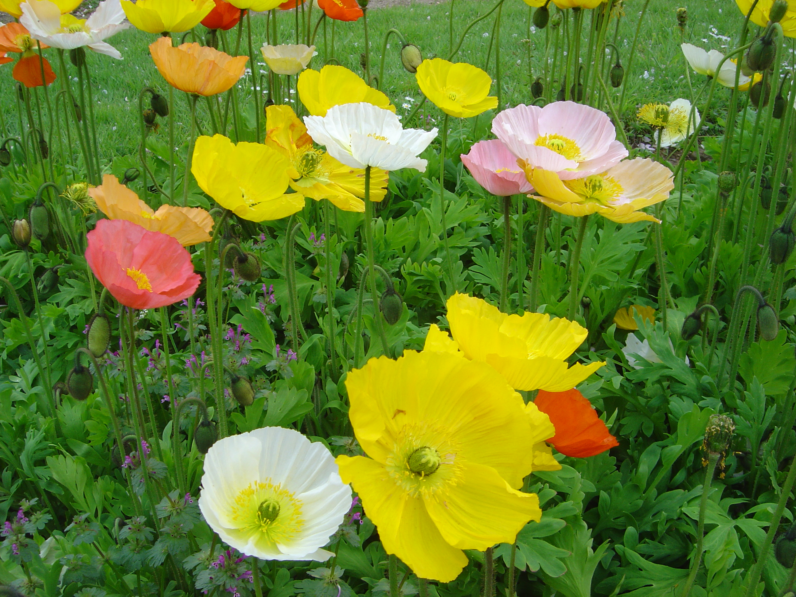 Papaver nudicaule